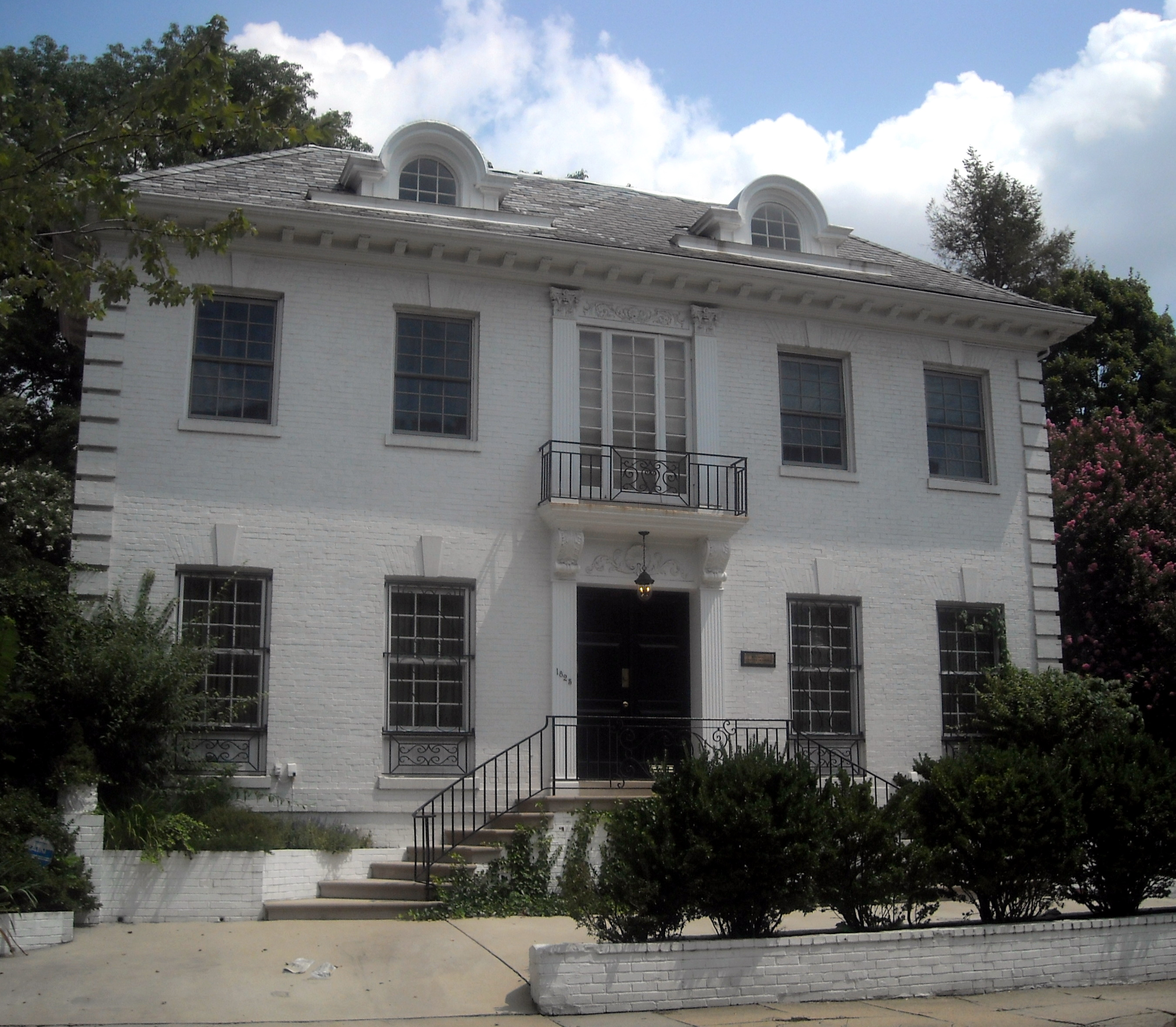 The Cypriot ambassador's residence (since 1974) located at 1825 24th Street, NW in the Sheridan-Kalorama neighborhood of Washington, D.C. The Embassy of Cyprus is located nearby at 2211 R Street, NW. Built in 1905, the Beaux-Arts style house is a contributing property to the Sheridan-Kalorama Historic District. Its 2009 property value is $3,126,920. In addition to Cypriot ambassadors (Ambassador Andreas Kakouris is the current resident), notable past occupants of the home include Alfred Mitchell-Innes (Counselor of the Embassy of Great Britain), Horace James Seymour (Third Secretary of the Embassy of Great Britain), John Van Antwerp MacMurray (U.S. diplomat, U.S. Assistant Secretary of State), Frank Sinatra (U.S. entertainer), Peter Malatesta (Aide to U.S. Vice President Spiro Agnew), and Arthur Krock (U.S. journalist).